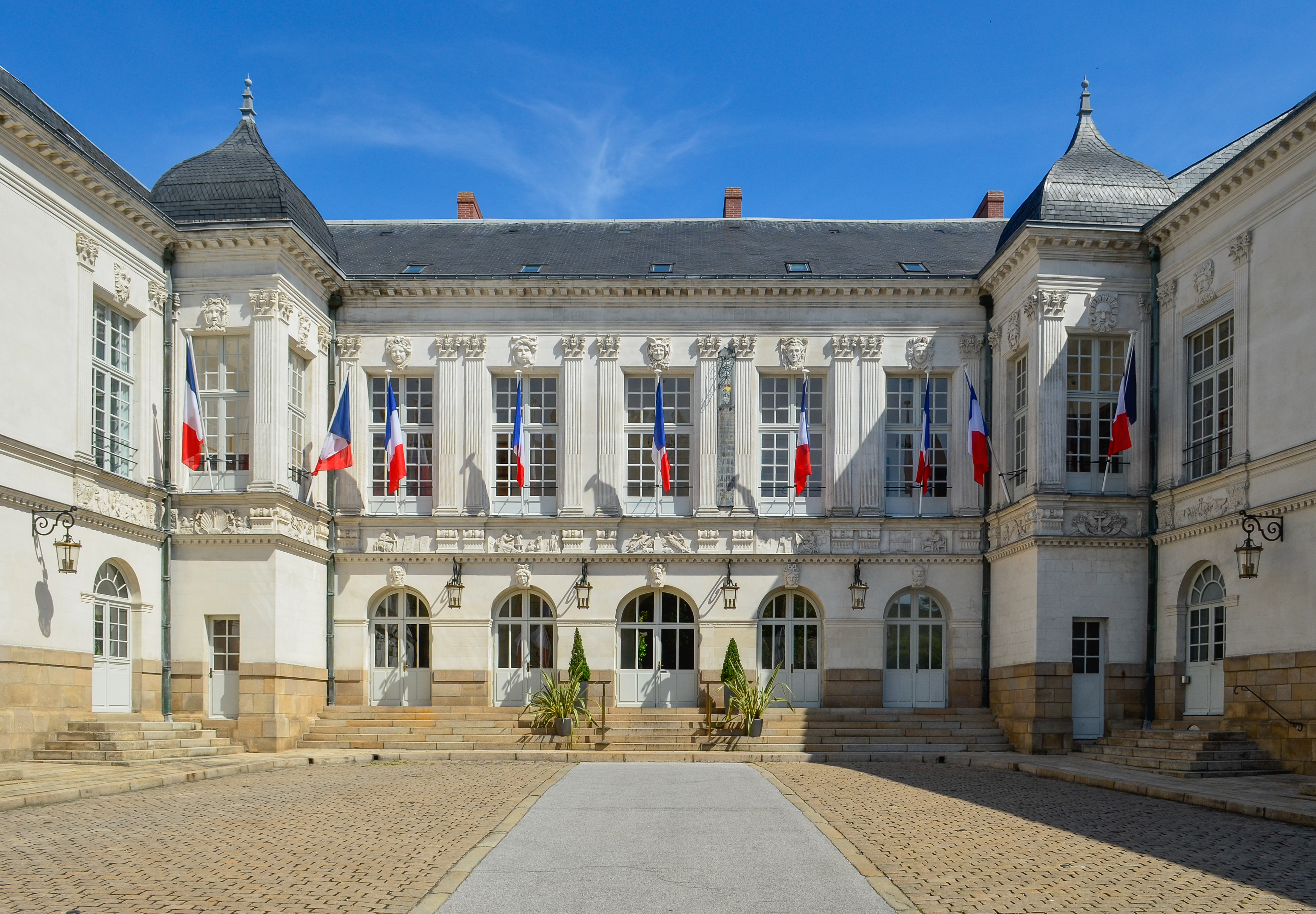 Derval manor, main building of Nantes city hall - France